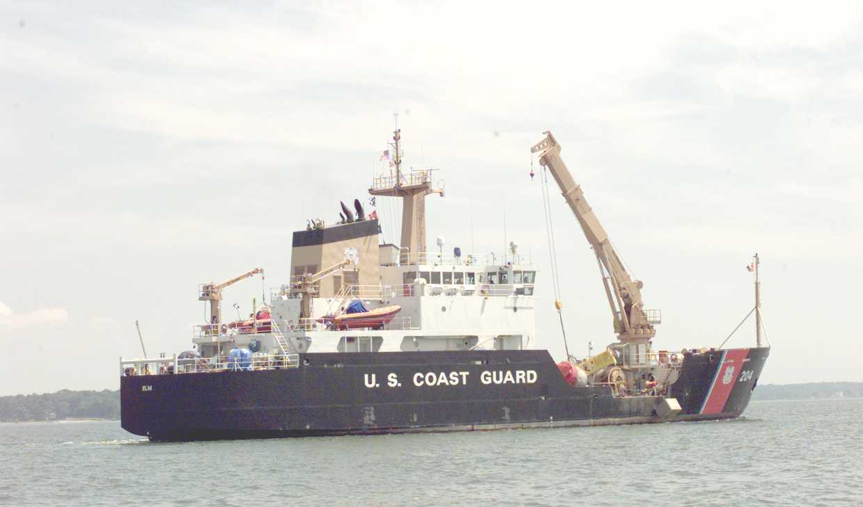 USCGC Elm (WLB-204); "Yorktown, VA (July 16)-A 3/4 profile of the CGC Elm, homeported out of Atlantic Beach, NC. The Elm was one of the vessels that participated in Coast Guard Missions Day at Reserve Training Center Yorktown. The purpose of Coast Guard Missions Day is to raise the visibility of the Coast Guard by providing a one-day, missions-intensive and hands-on Coast Guard experience to staff level employees of the U.S. Congress and Administration."; Photo No. 990716-I-5809B-523 (FR); 16 July 1999; photo by PA1 Telfair H. Brown.